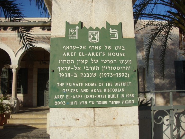 District officer\'s house historian Aref al-Aref